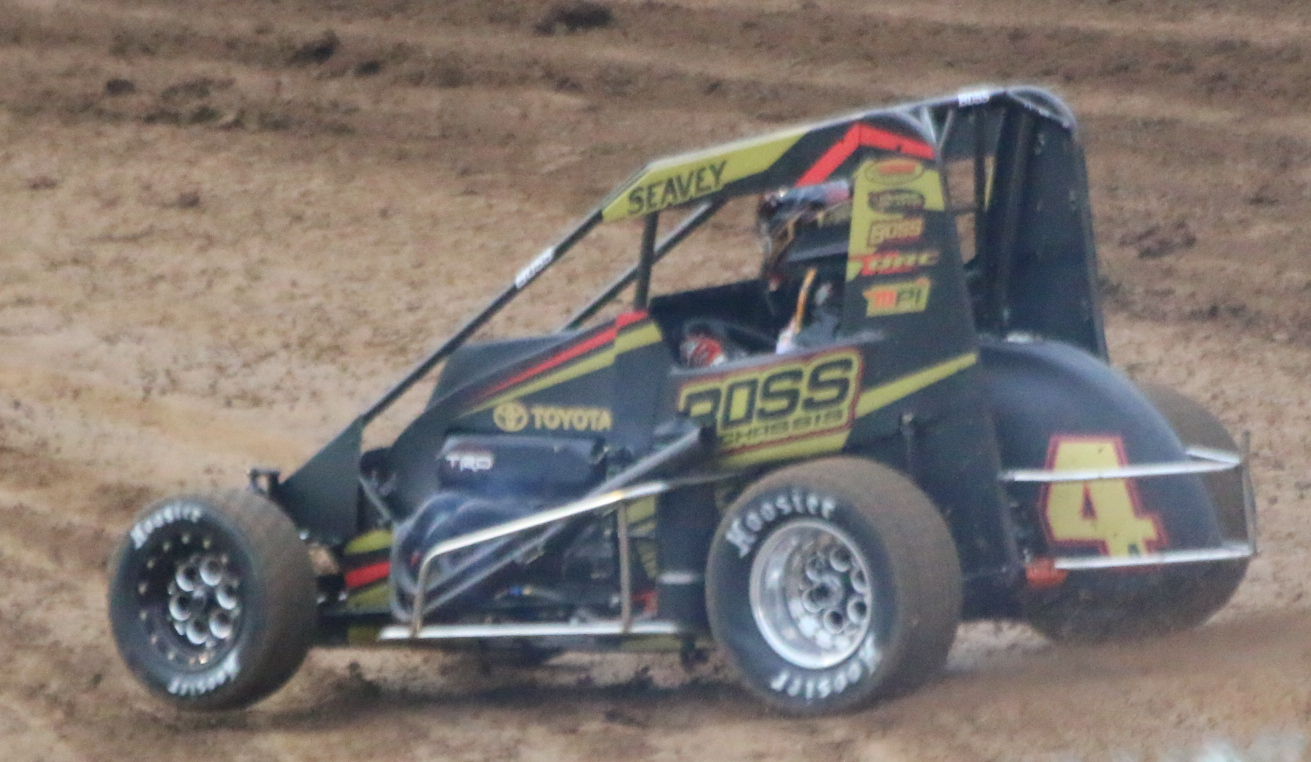 Logan Seavey's POWRi midget car at Angell Park Speedway.